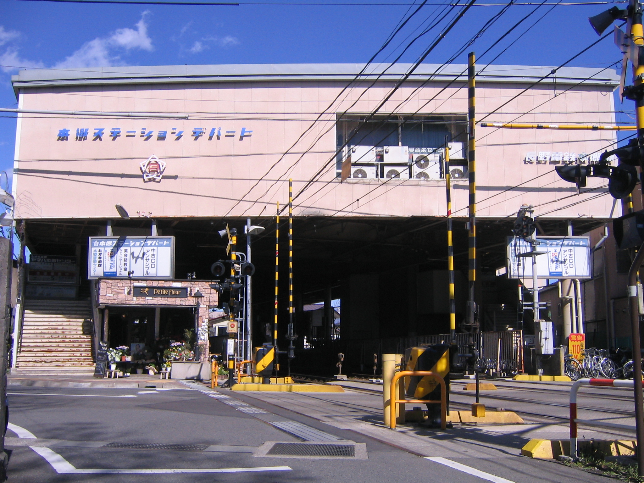 Hongo Station in Nagano city, Nagano Prefecture, Japan